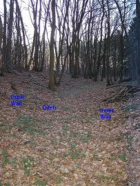 Goloring - Picture of Ditch